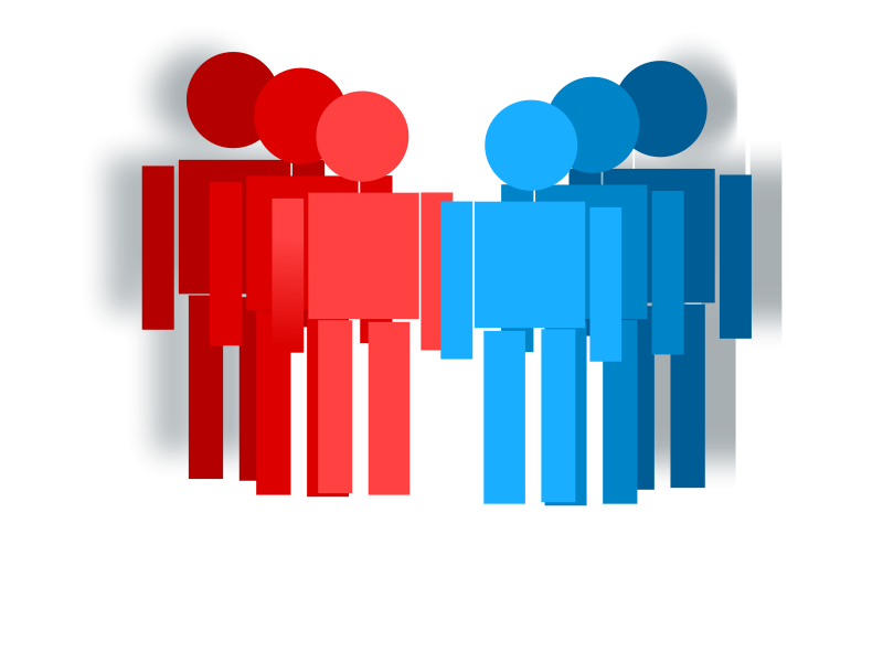 Free clip art vector downloaded designed by Apollo technology network